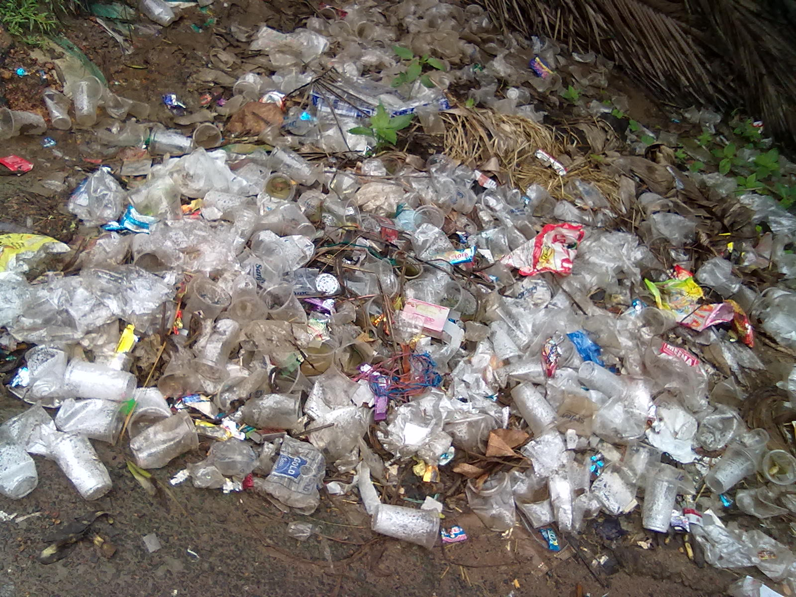 this is at village level plastic wastage in batlapalem eg dist,ap